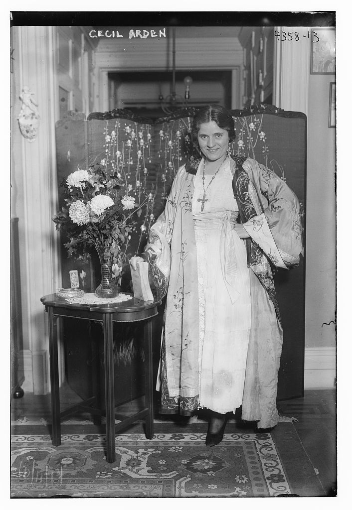 Cecil Arden facing forward in 1917